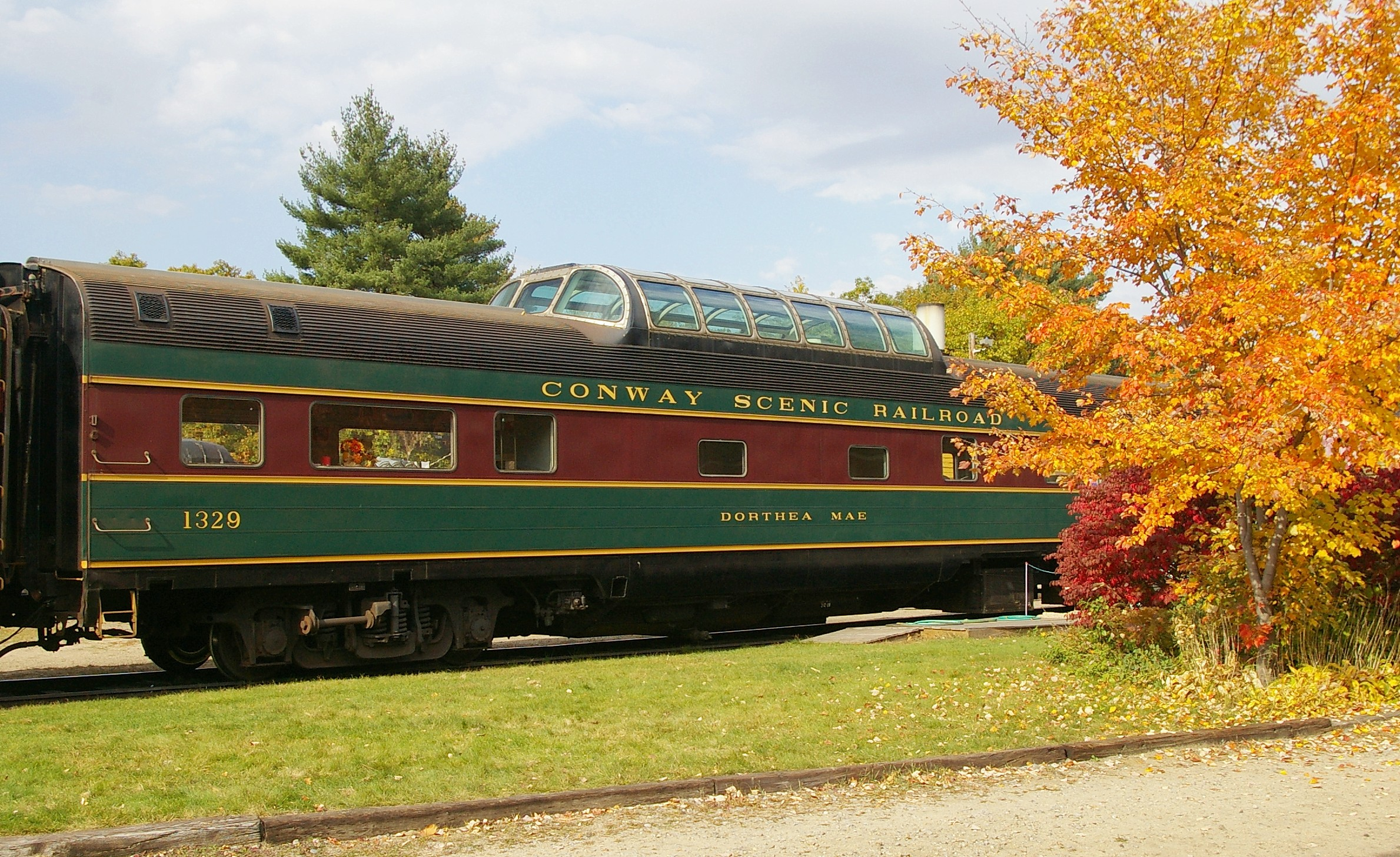 Built by the Budd Company in 1954 for Great Northern Railway Empire Builder service. Later used on Amtrak, Alaska Railroad, and Cape Cod Railroad. Acquired by Conway Scenic Railroad in 1998 and placed into service on the Notch Train in 2001.